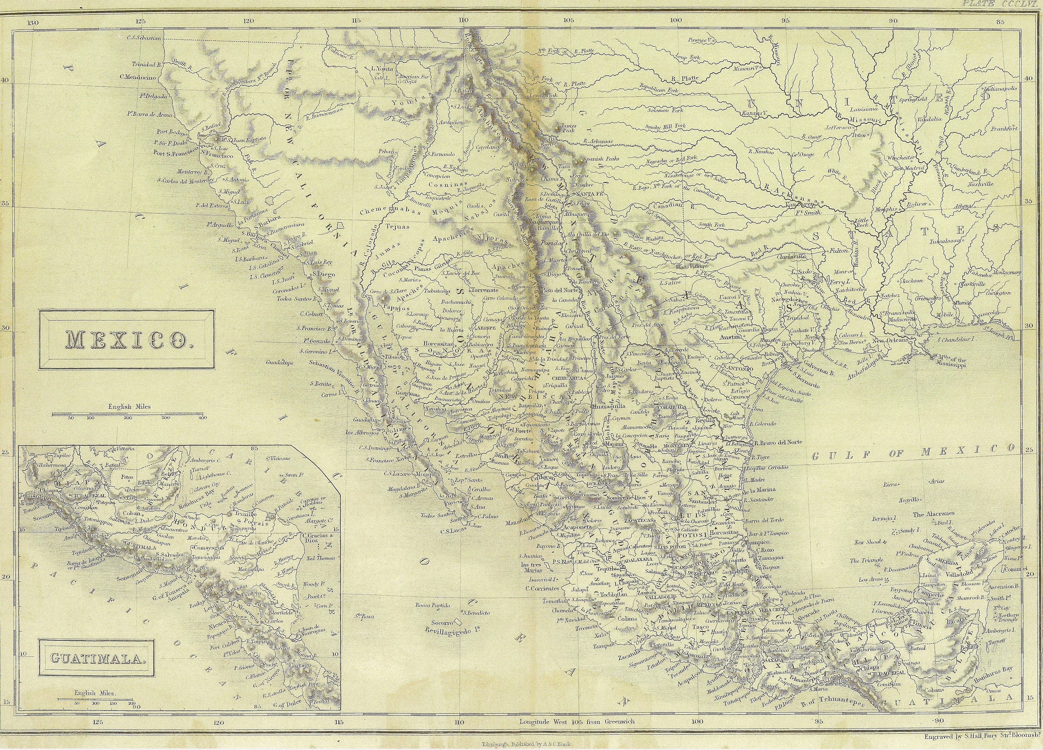 Mexico in 1838 included CA NV UT NM AZ and Texas. From Encyclopedia Britannica 7th edition.